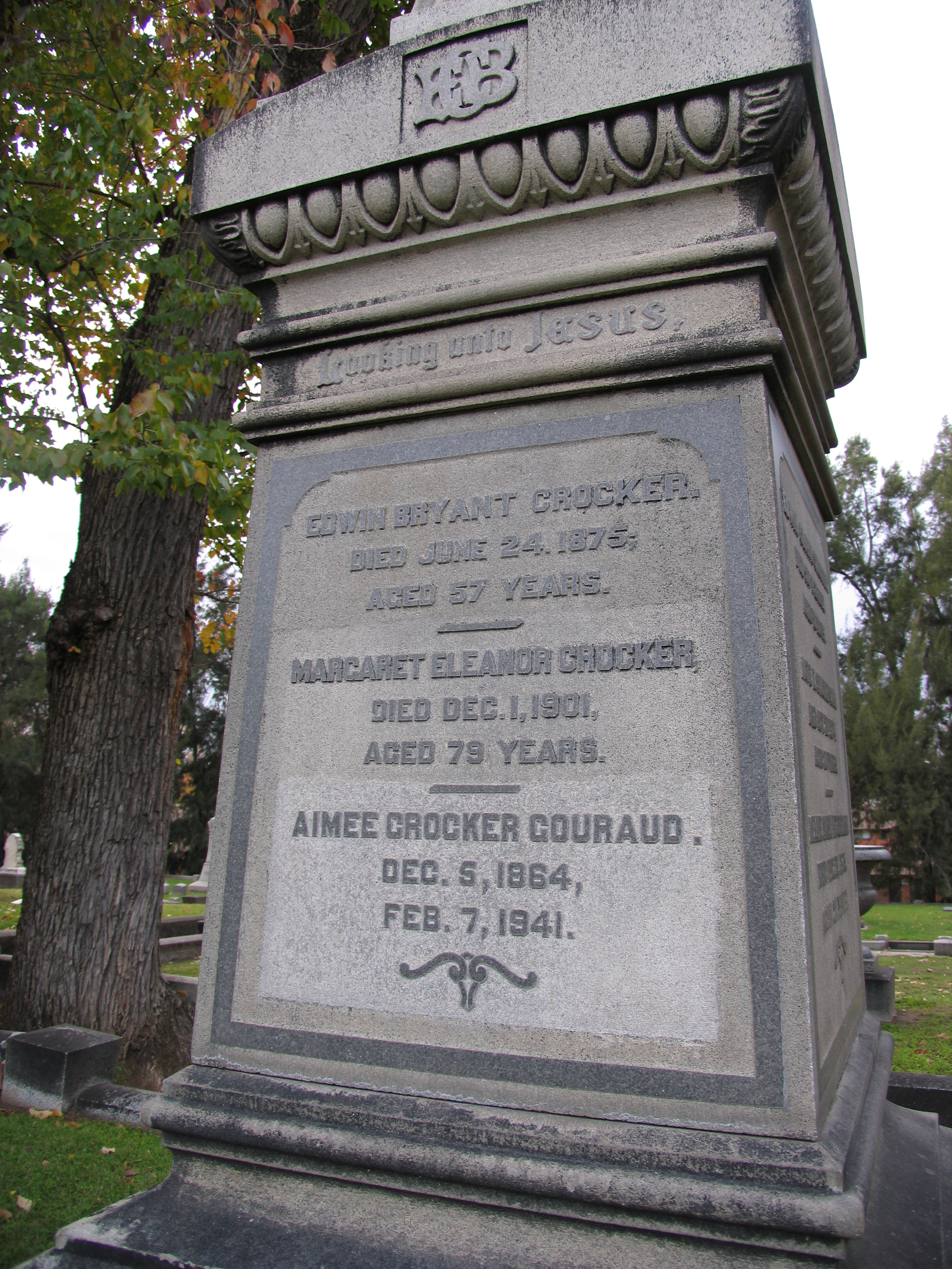 Aimee Crocker's gravestone